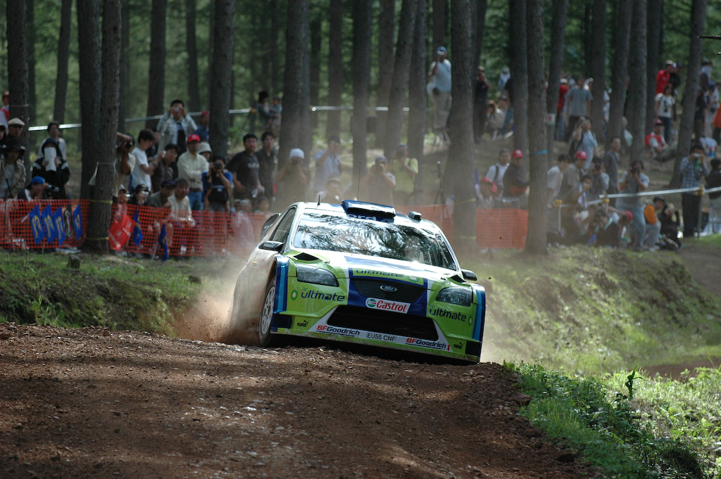 Marcus Grönholm driving his Ford Focus RS WRC 06 at the 2006 Rally Japan.